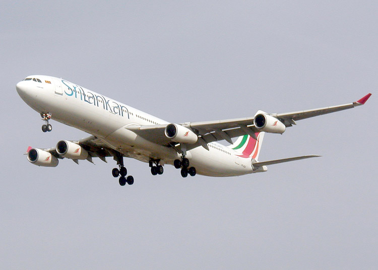 An Airbus A340 of SriLankan Airlines. This is a wide-bodied long-haul airliner, with 24 Business Class seats and 288 Economy Class seats. Landing at London (Heathrow) Airport, UK.